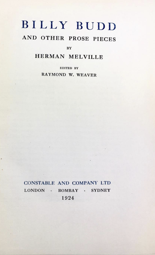 First page of "Billy Budd", 1924. Reproductions of public domain content are ineligible for copyright.